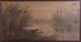 Painting by American painter Andrew Jackson Poe (1851-1920). A wall mural of this painting or one similar to it is/was in the St. Louis, MO train station, also painted by Andrew Jackson Poe. This desk painting was painted on riverboat Captain Adam Poe’s (1816-1896) office desk. Captain Poe was a riverboat captain on the Ohio River, as well other major rivers, making Georgetown his home port. Captain Poe also served as a river pilot in the Civil War.